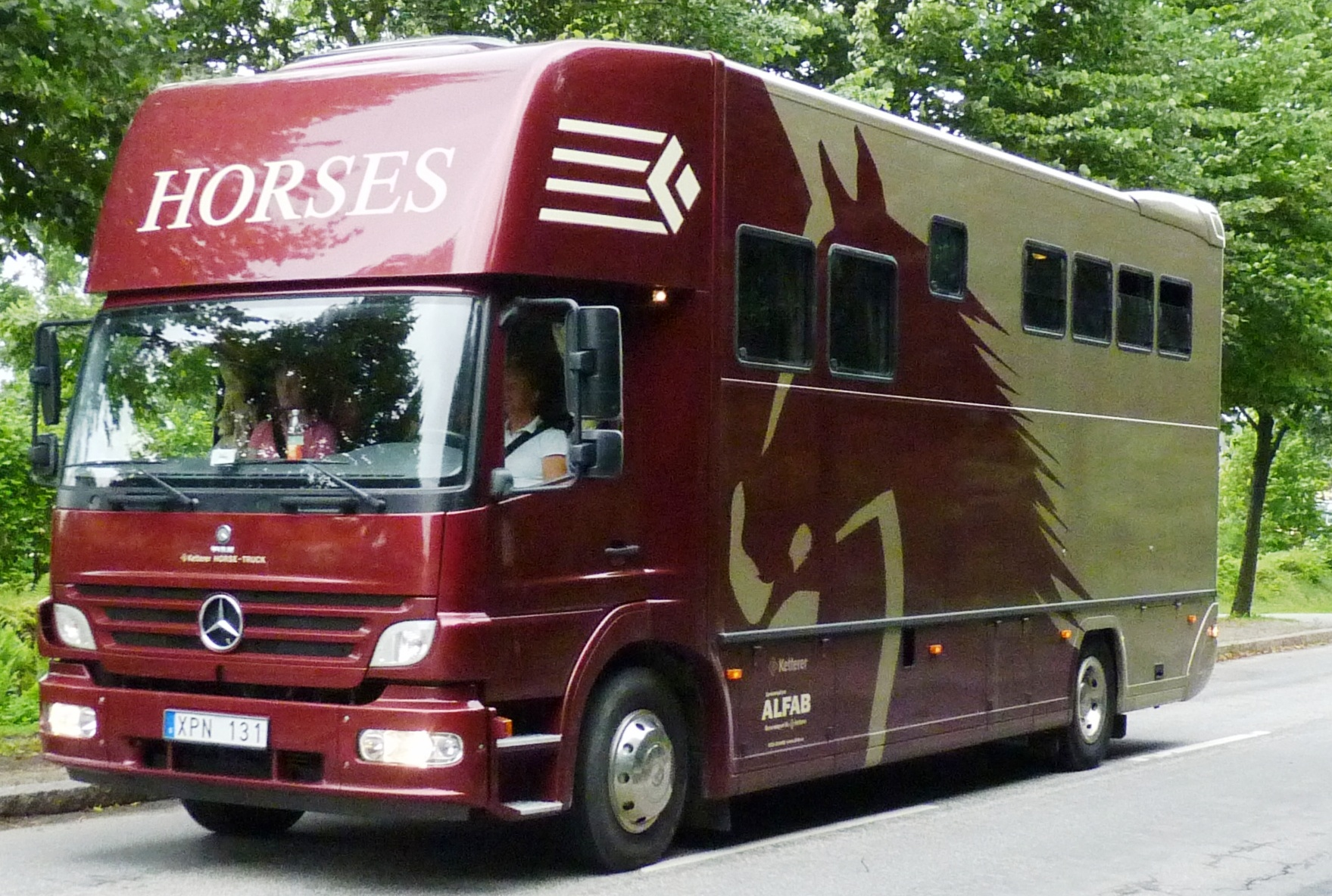 Horsebox built by Ketterer Horse Trucks (Germany) on a Mercedes Benz chassis. This photo was taken in Flyinge, Sweden 2010.